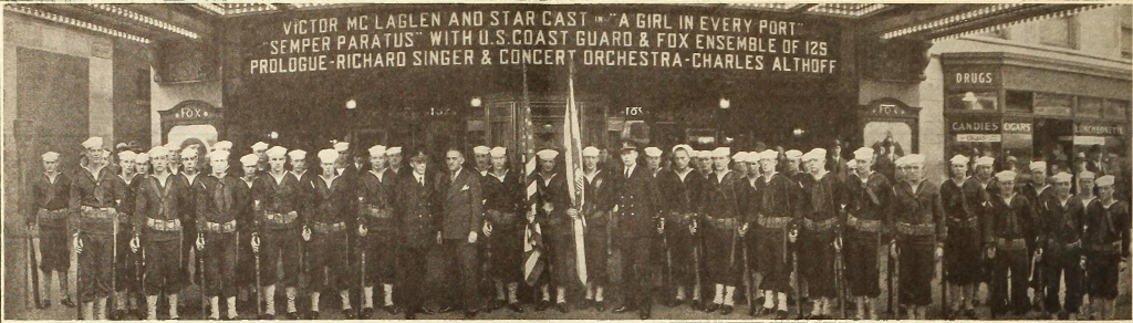 Coast Guard at Fox Theater in Washington D.C. 1928, for silent film A Girl in Every Port (1928). Other information Cropped from page 38.